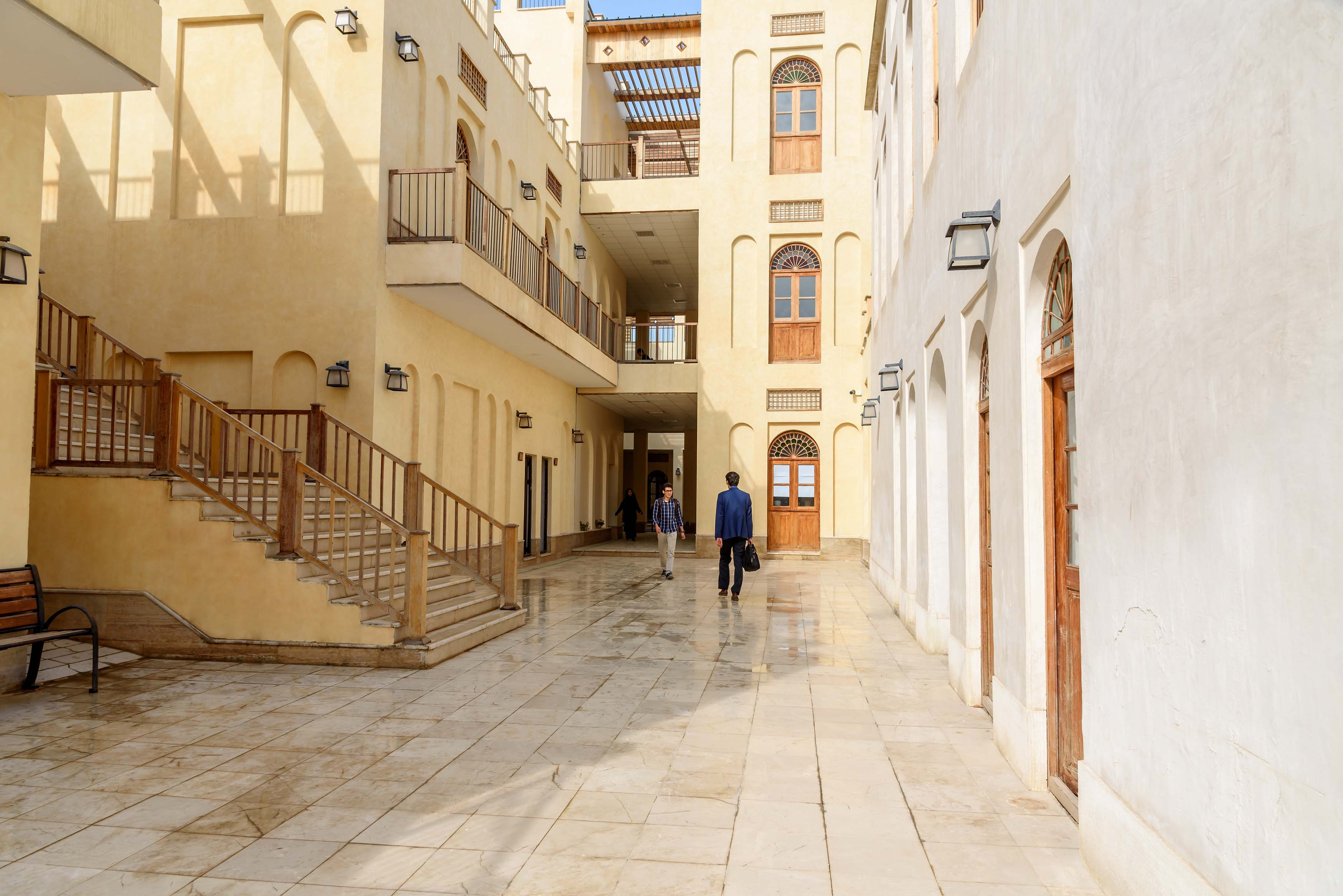 main entry school of architecture persian gulf university